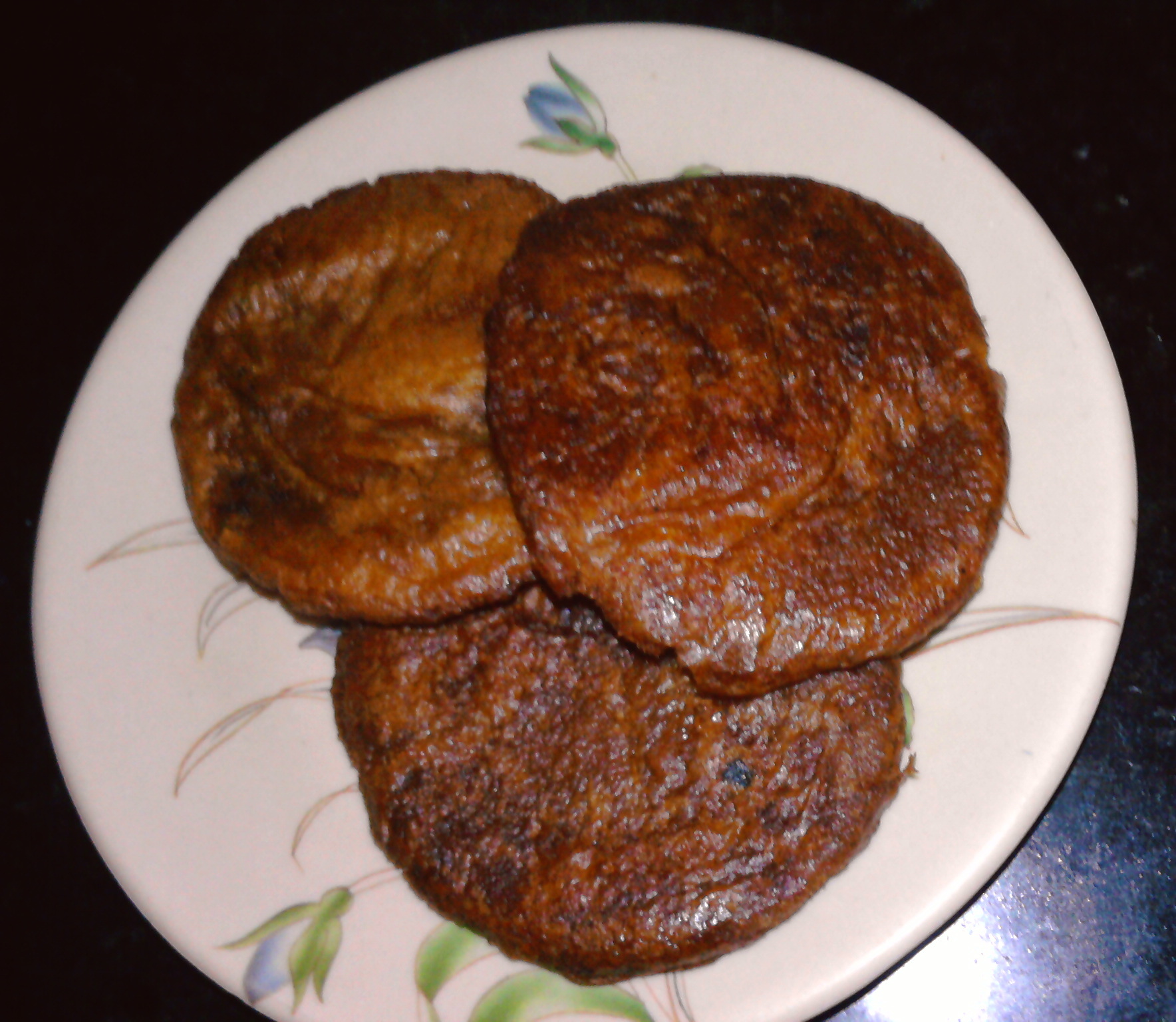 the snack name ariselu in telugu. it is a South Indian snack.